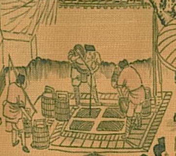 part of the Qingming Scroll